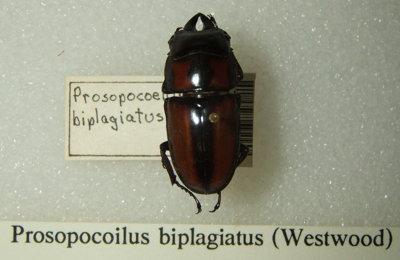 Prosopocoilus biplagiatus adult taken by Shawn Hanrahan at the Texas A&M University Insect Collection in College Station, Texas.